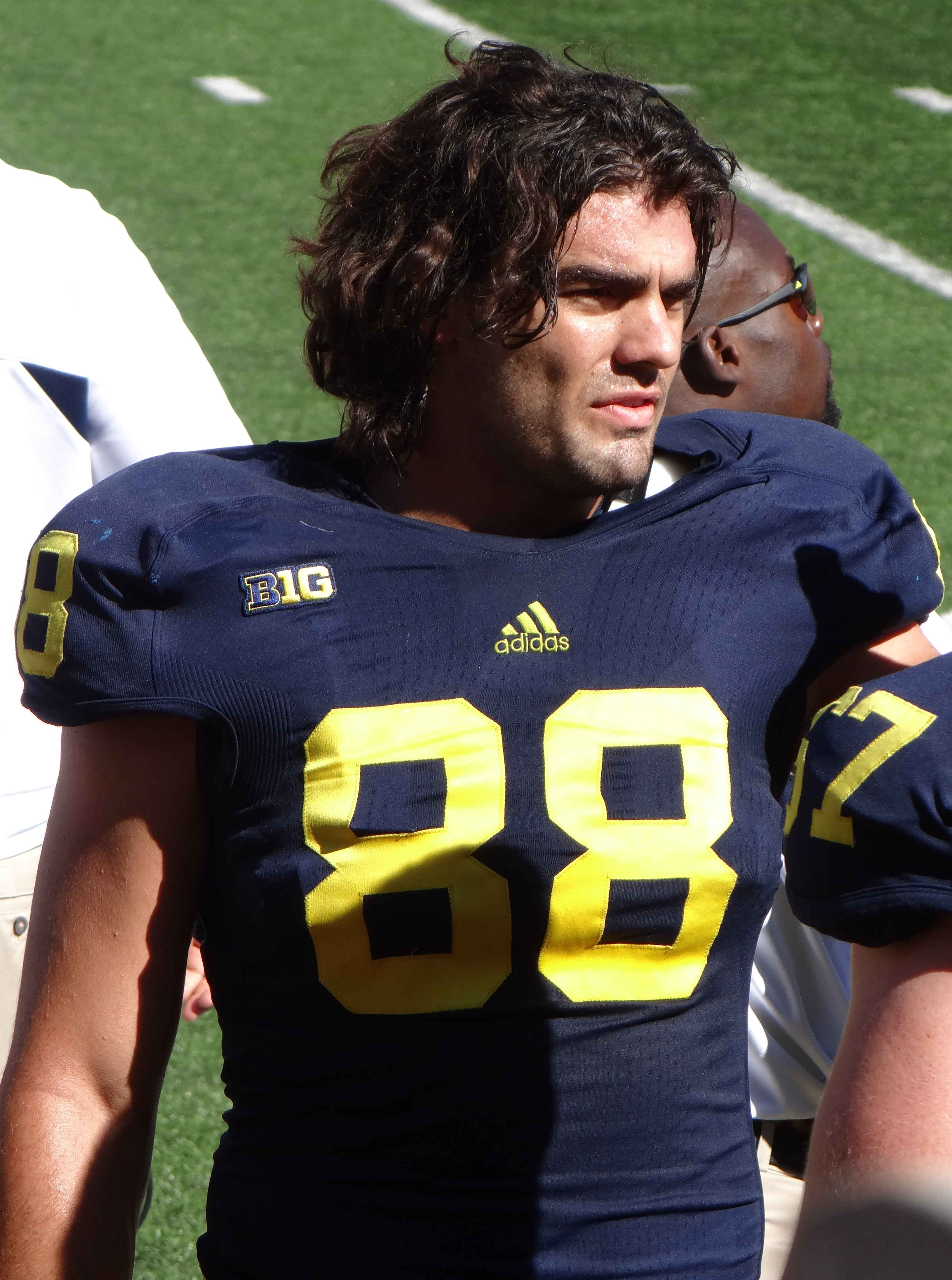 Craig Roh of the University of Michigan